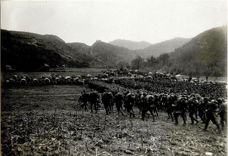 Petrozsény